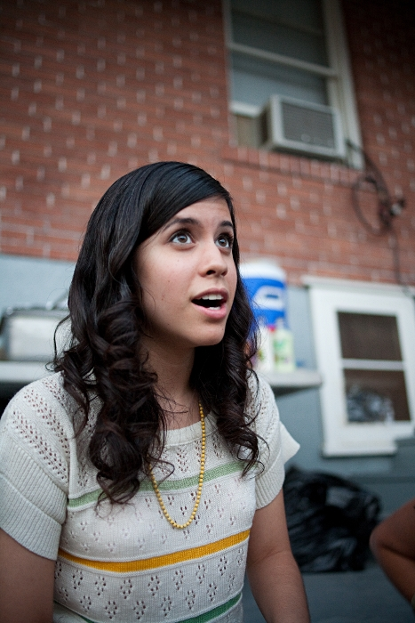 Ashly Burch on the set of the independent film Must Come Down (2012).